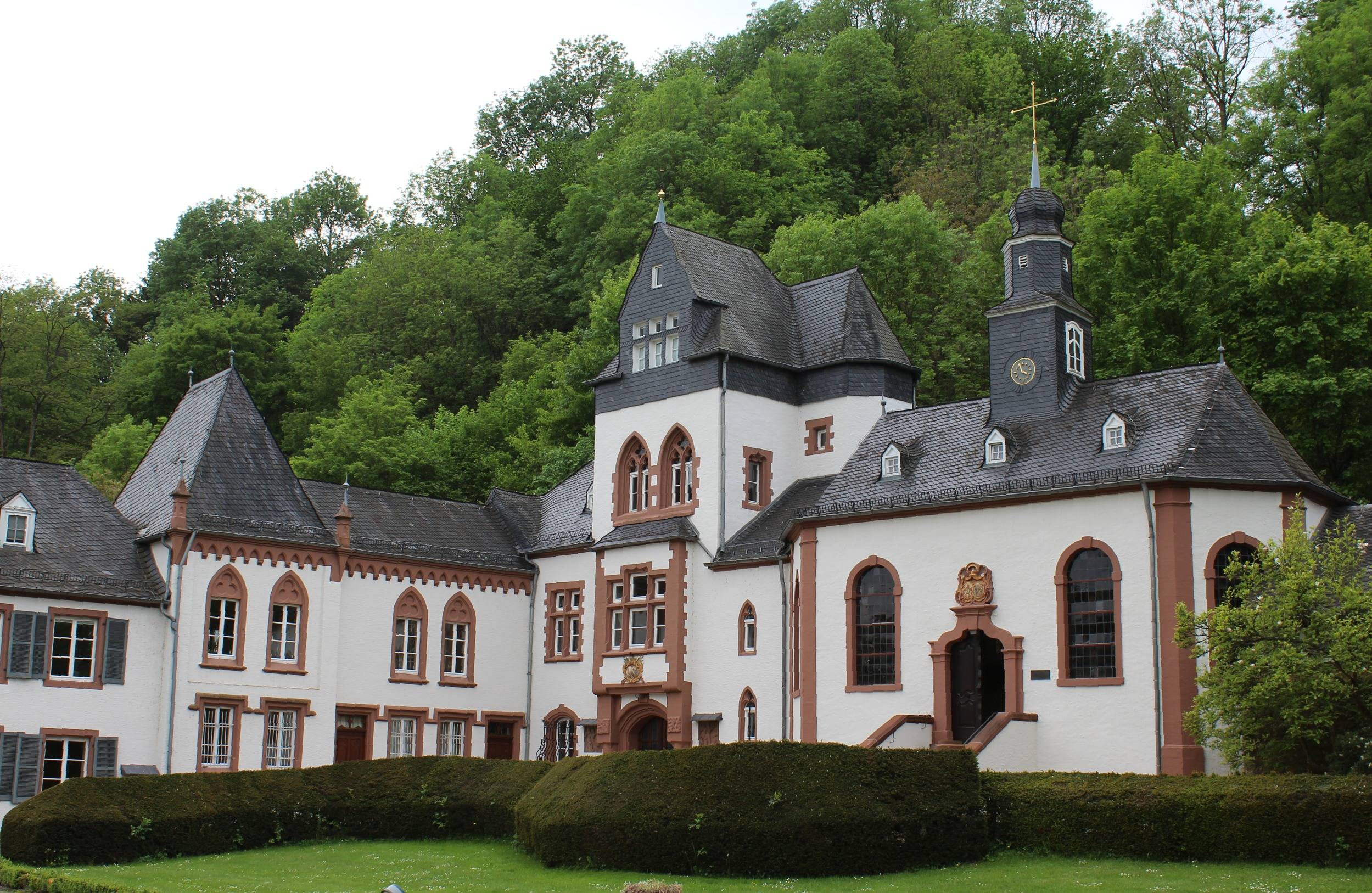 Dagstuhl palace and chapel